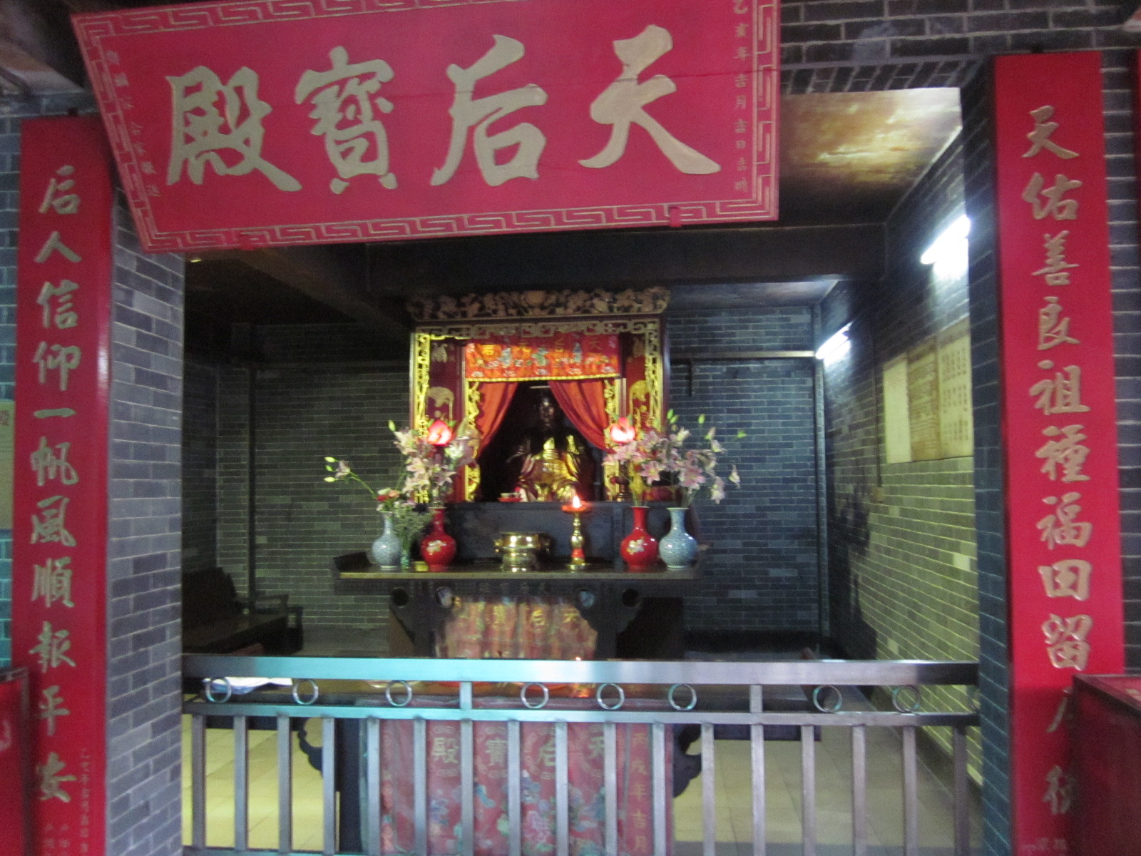 San-yuan Palace